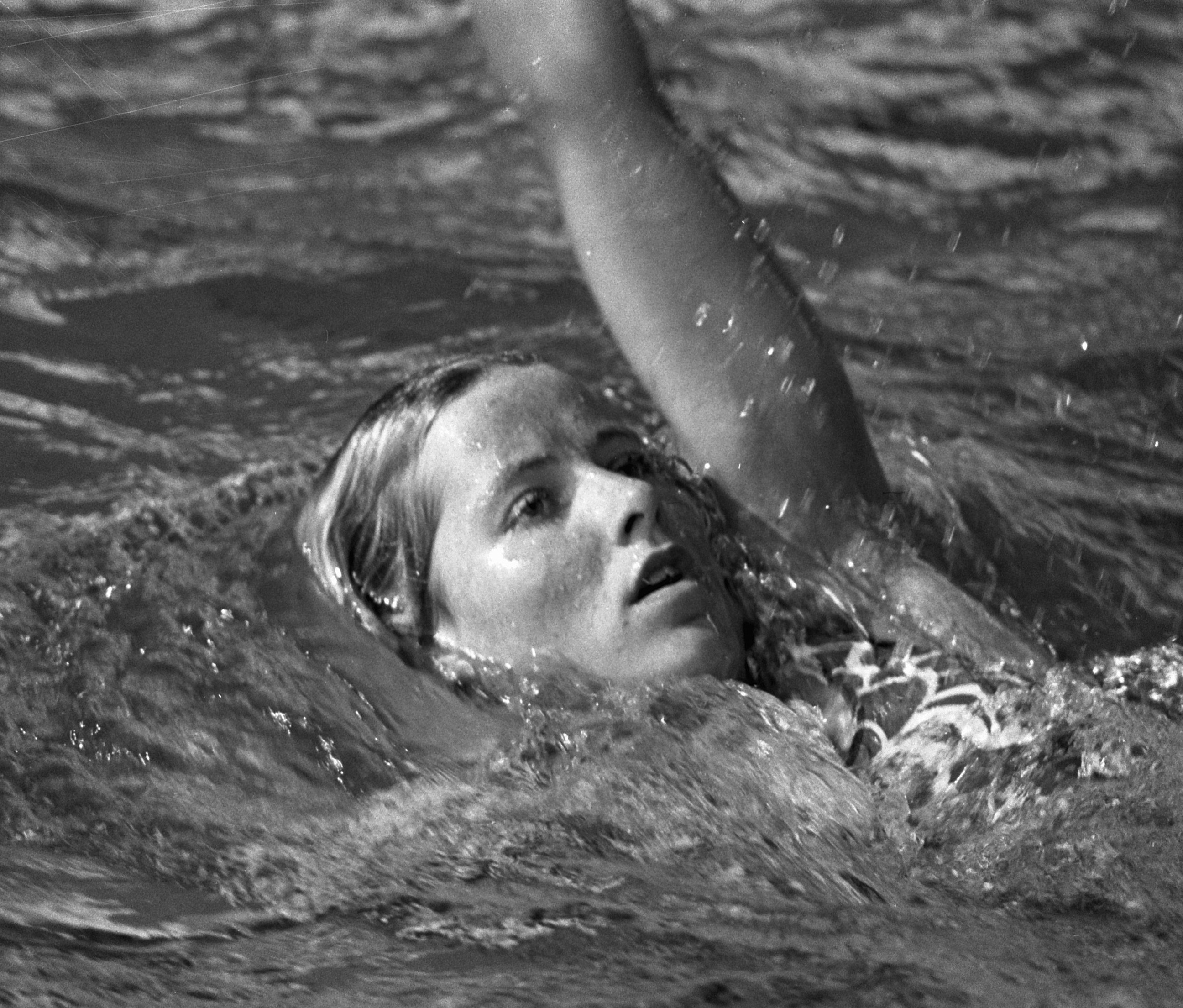 Josien Elzerman